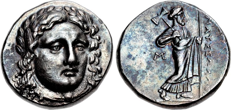 SATRAPS of CARIA. Maussolos. Circa 377-6-353-2 BC